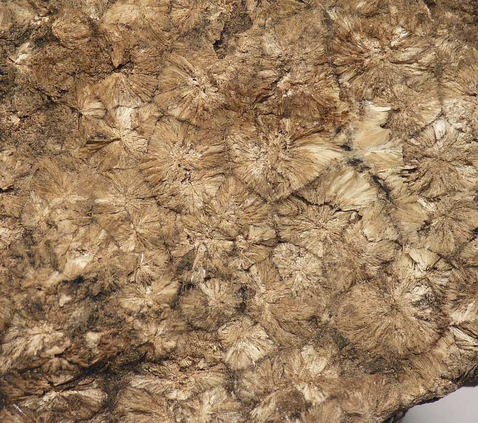 Messelite Locality: Messel Mine, Messel, Darmstadt, Hesse, Germany Field of view 2.5 cm